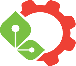 Logo of the Ministry of Industry of the Republic of IndonesiaBahasa Indonesia: Logo Kementerian Perindustrian Republik Indonesia